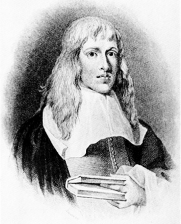 Francis Willughby 1635 – 1672